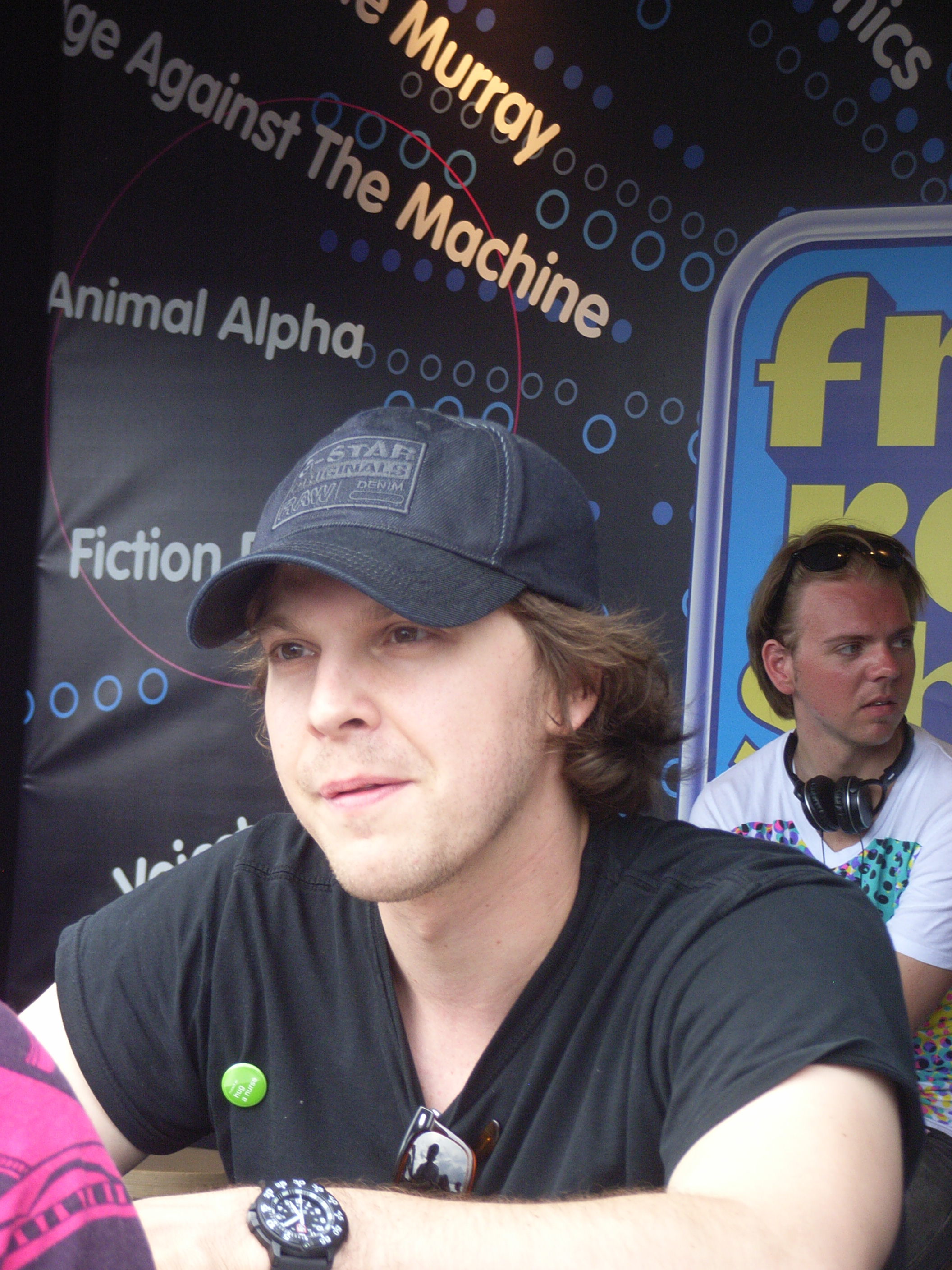 Gavin DeGraw at Pinkpop 2008